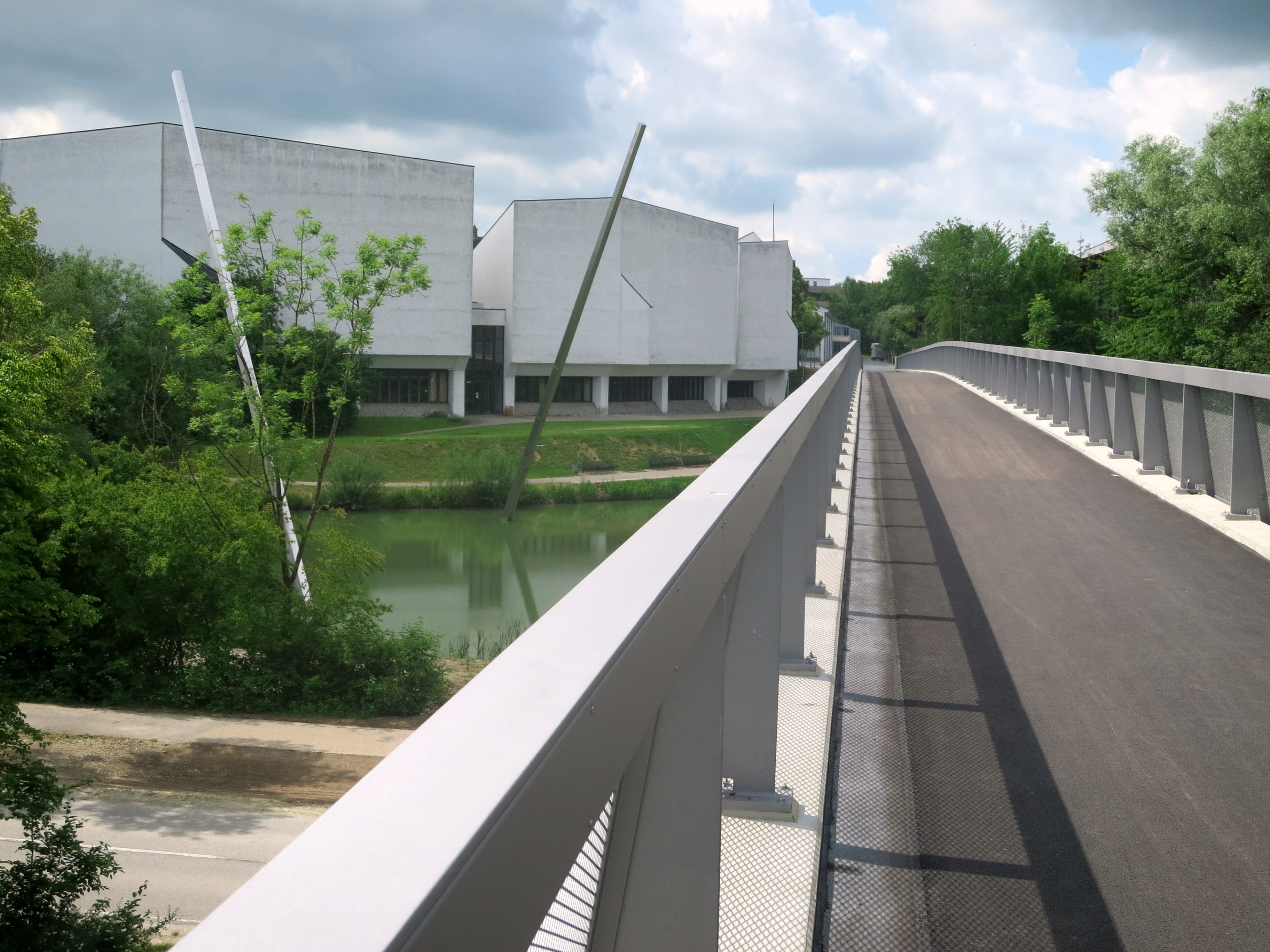 New Campus Bridge 2018